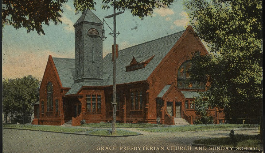 "Grace Presbyterian Church and Sunday school", on the Near North Side, Peoria, IL